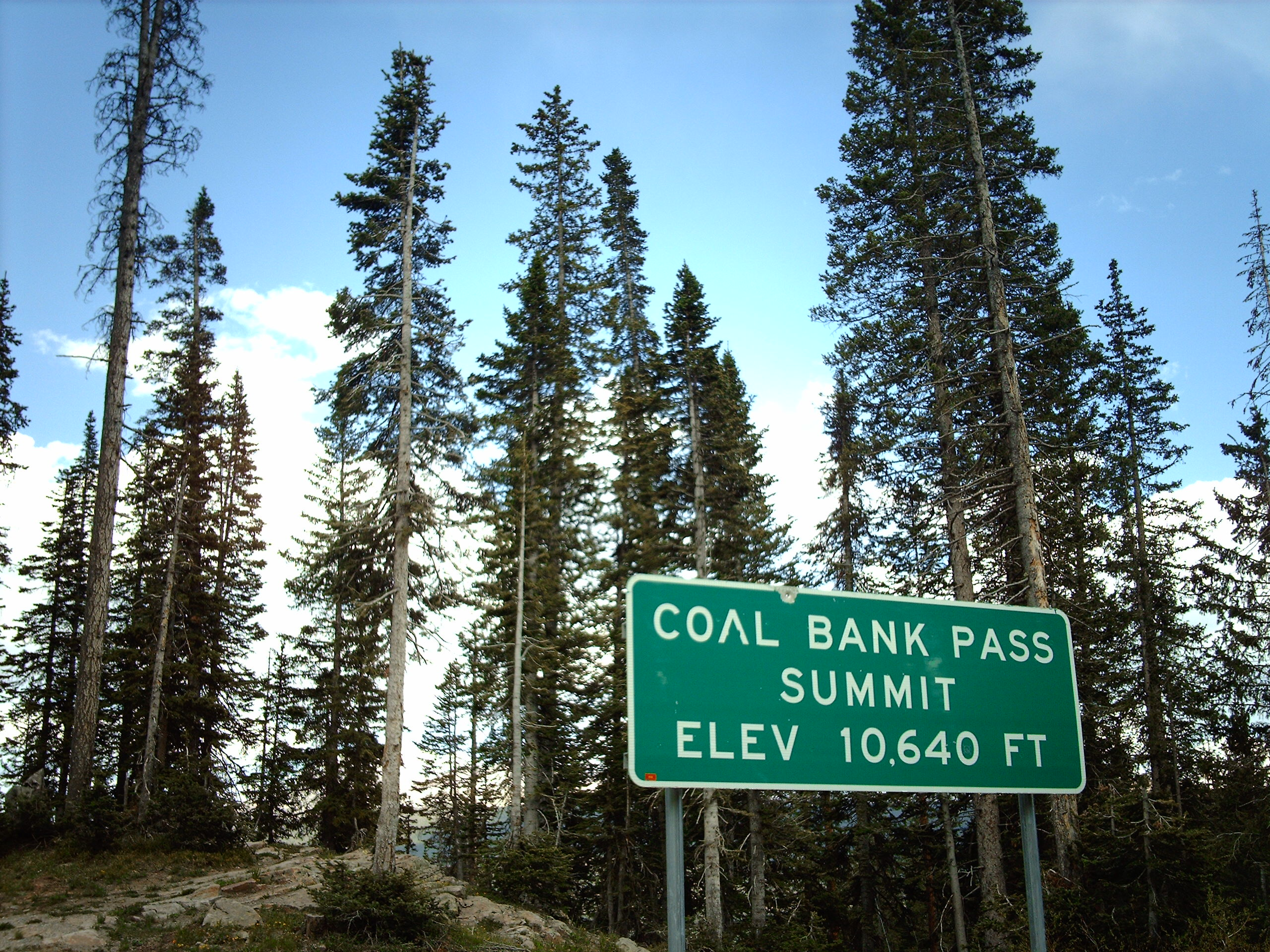 Coal Bank Pass sign.